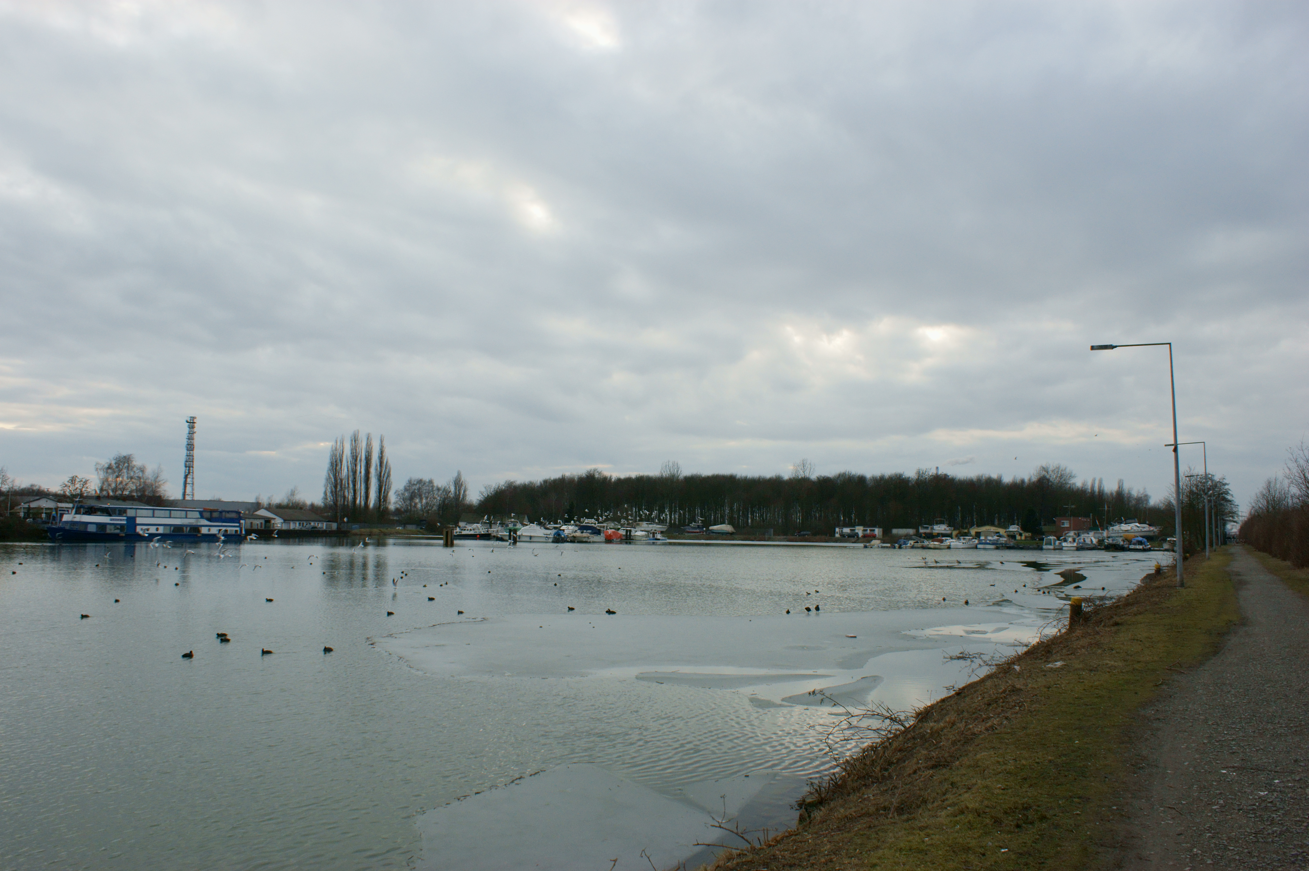 Marina in Herne, Germany. The marina is part of the Rhein-Herne-Canal. The former branch canal (until the 1930s) is in the line of sight.